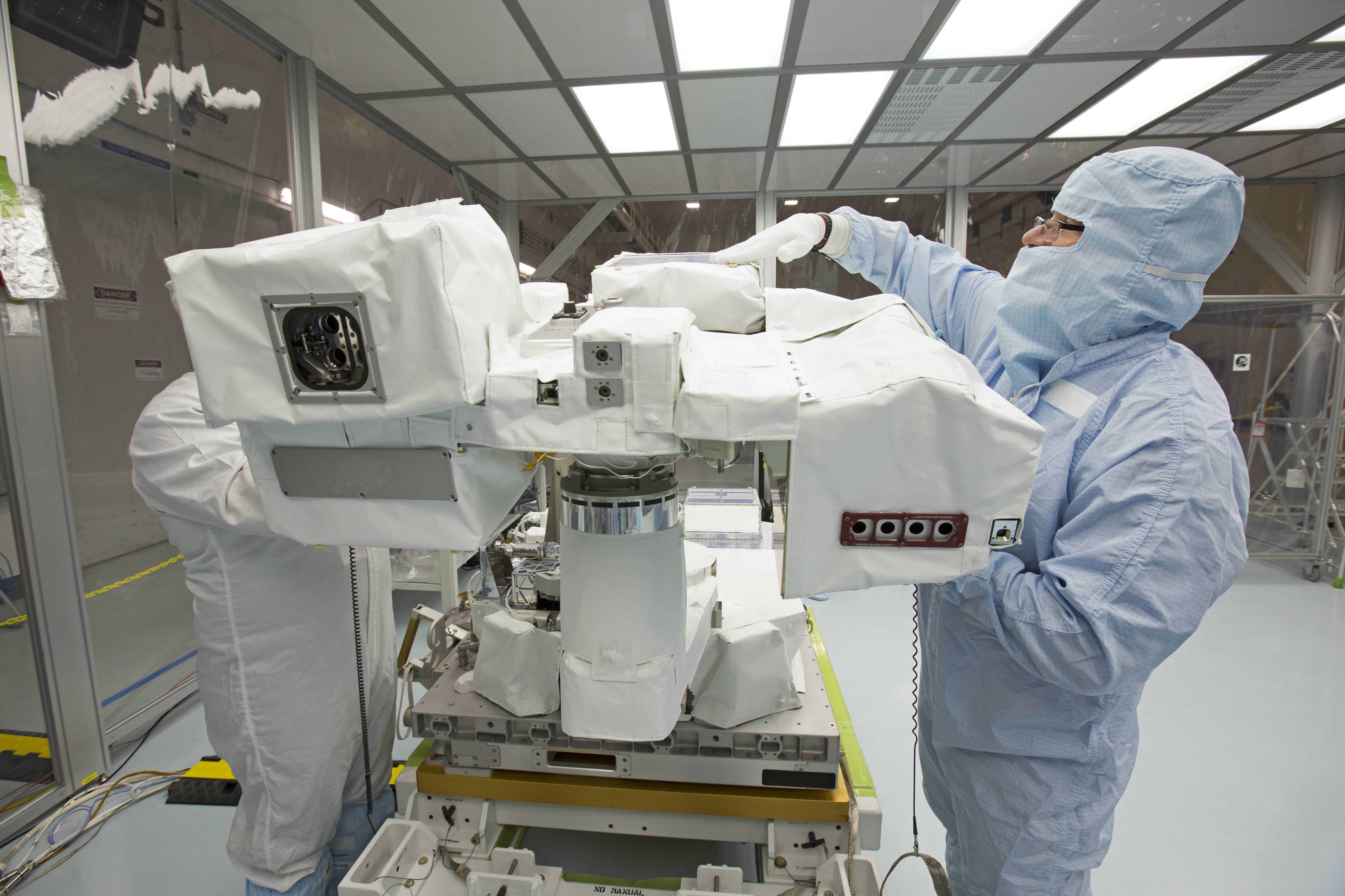 In the high bay of Kennedy Space Center's Space Station Processing Facility, Chris Hardcastle, right, of Stinger-Ghaffarian Technologies performs a sharp edge inspection of the integrated Total and Spectral Solar Irradiance Sensor-1 (TSIS-1) payload and the EXPRESS Pallet Adapter. Hardcastle is joined by Norm Perish, left, a TSIS-1 payload team member from the Laboratory for Atmospheric and Space Physics, a Research Institute at the University of Colorado (Boulder). TSIS-1 is designed to measure the Sun's energy input into Earth by seeing how it is distributed across different wavelengths of light. These measurements help scientists establish Earth's total energy and how our planet's atmosphere responds to changes in the Sun's energy output. TSIS-1 will launch on SpaceX's 13th commercial resupply mission to the International Space Station.